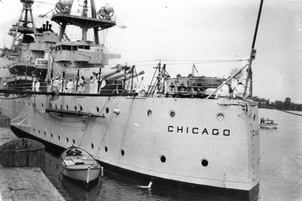 U.S. Navy ship, Chicago in Brisbane, March 1941. U.S.S. Chicago, Northmapton-class heavy cruiser on a goodwill visit to Brisbane by the U.S. Navy in 1941. This was the first visit of an American Naval Squadron to Brisbane during World War II . This was prior to the Japanese invasion of Pearl Harbour in December 1941. (Description supplied with photograph.).